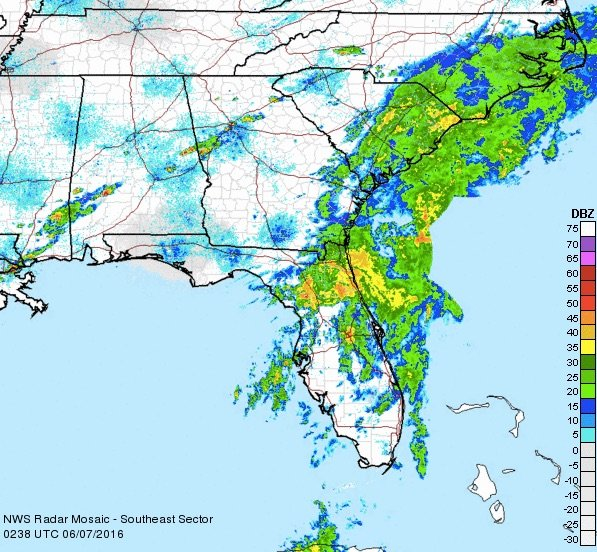 Rain from Colin continued to fall Monday night up and down the Florida peninsula and stretched northward into Georgia and the Carolinas.